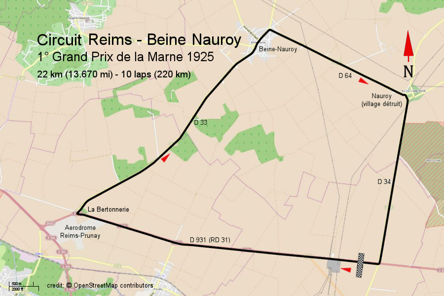 Circuit Reims - Beine-Nauroy 1925